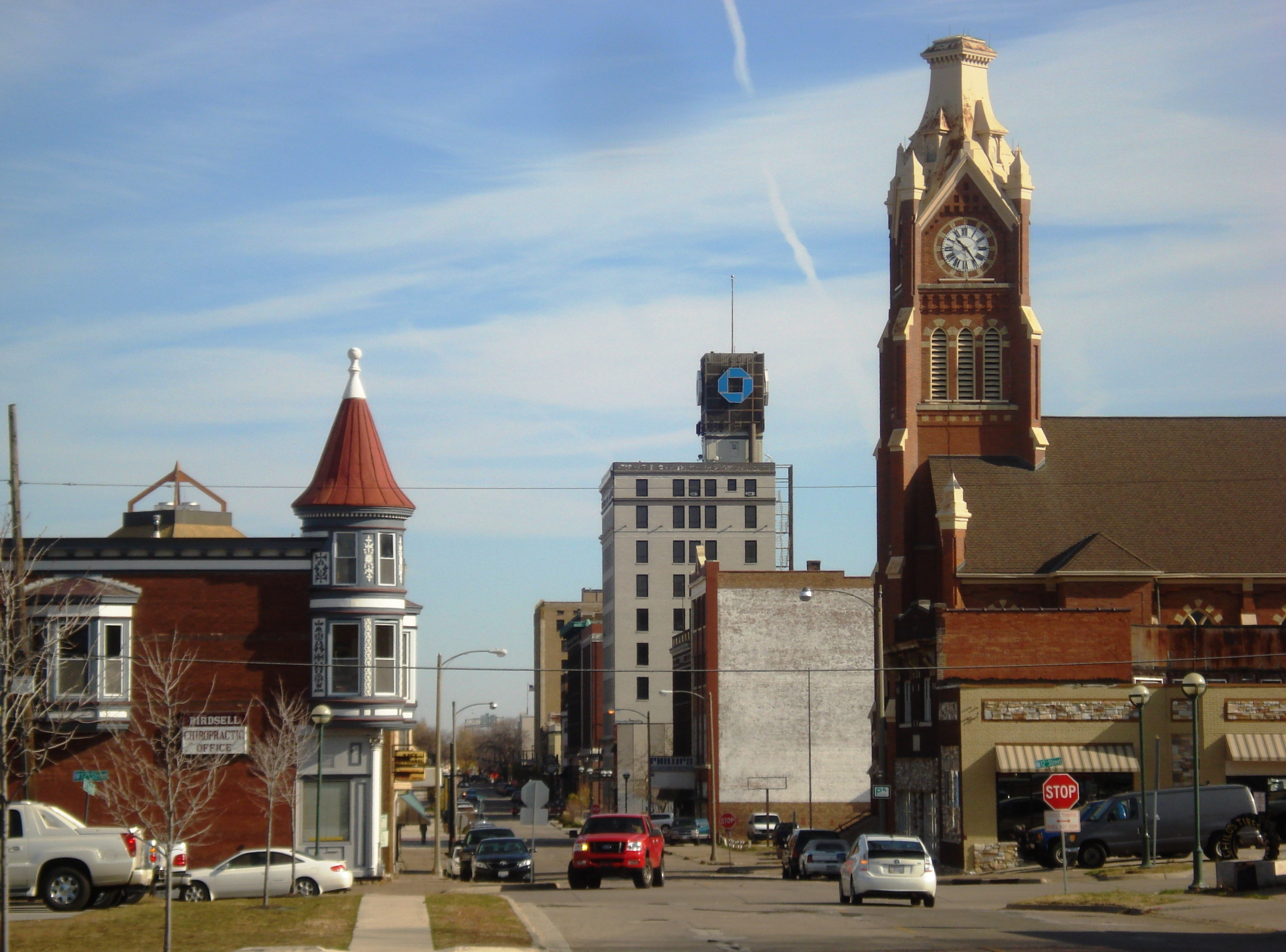 View east on 5th Avenue from approximately 12th Street: Thirty-three acre section of the Central Business District in Moline, Illinois. One hundred buildings contribute to its historical significance.